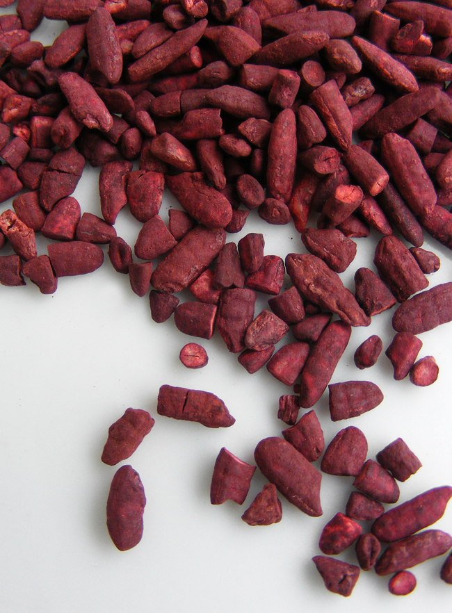 White rice fermented with the mold Monascus purpureus.